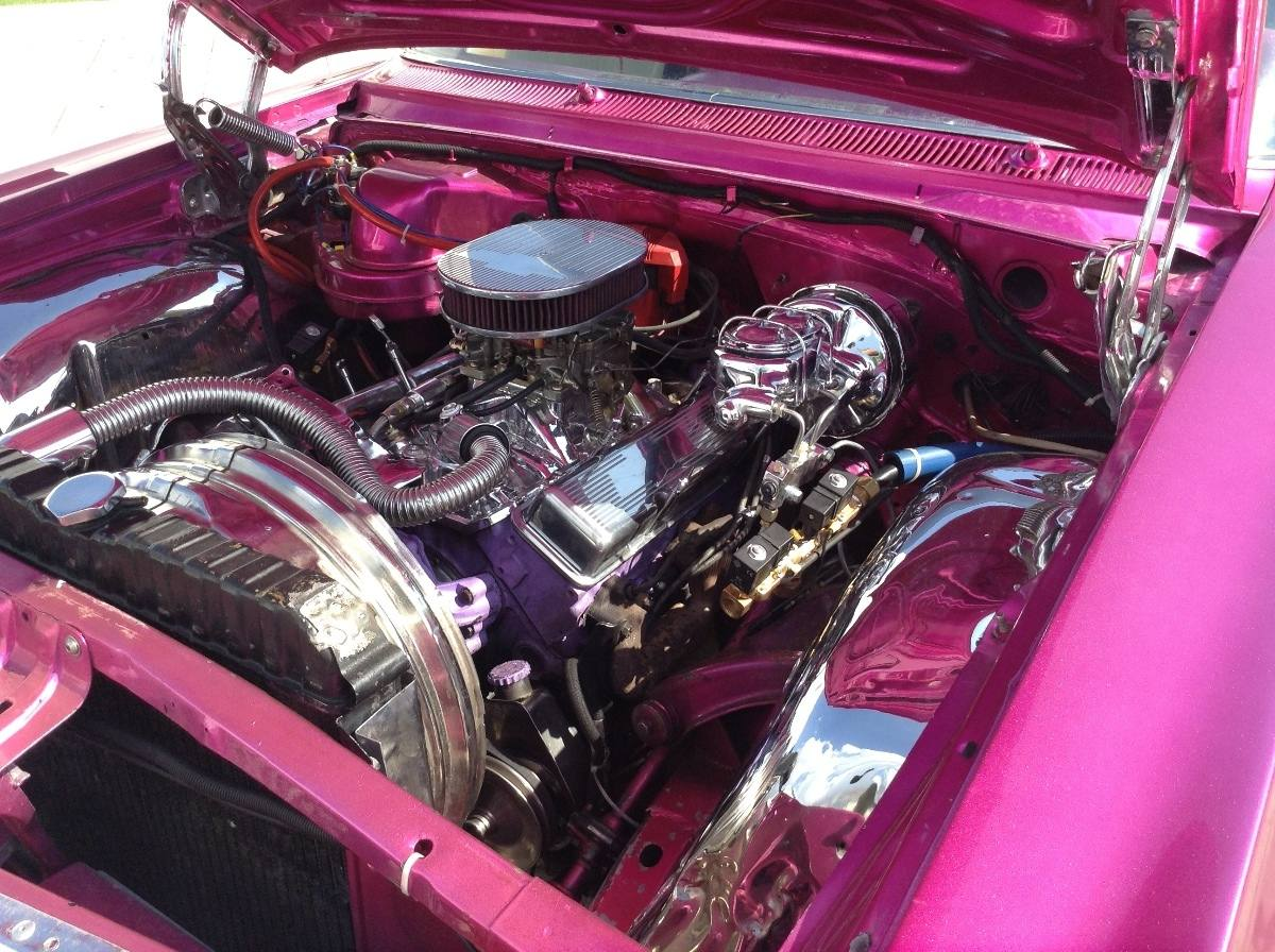 view of the engine bay of a impala